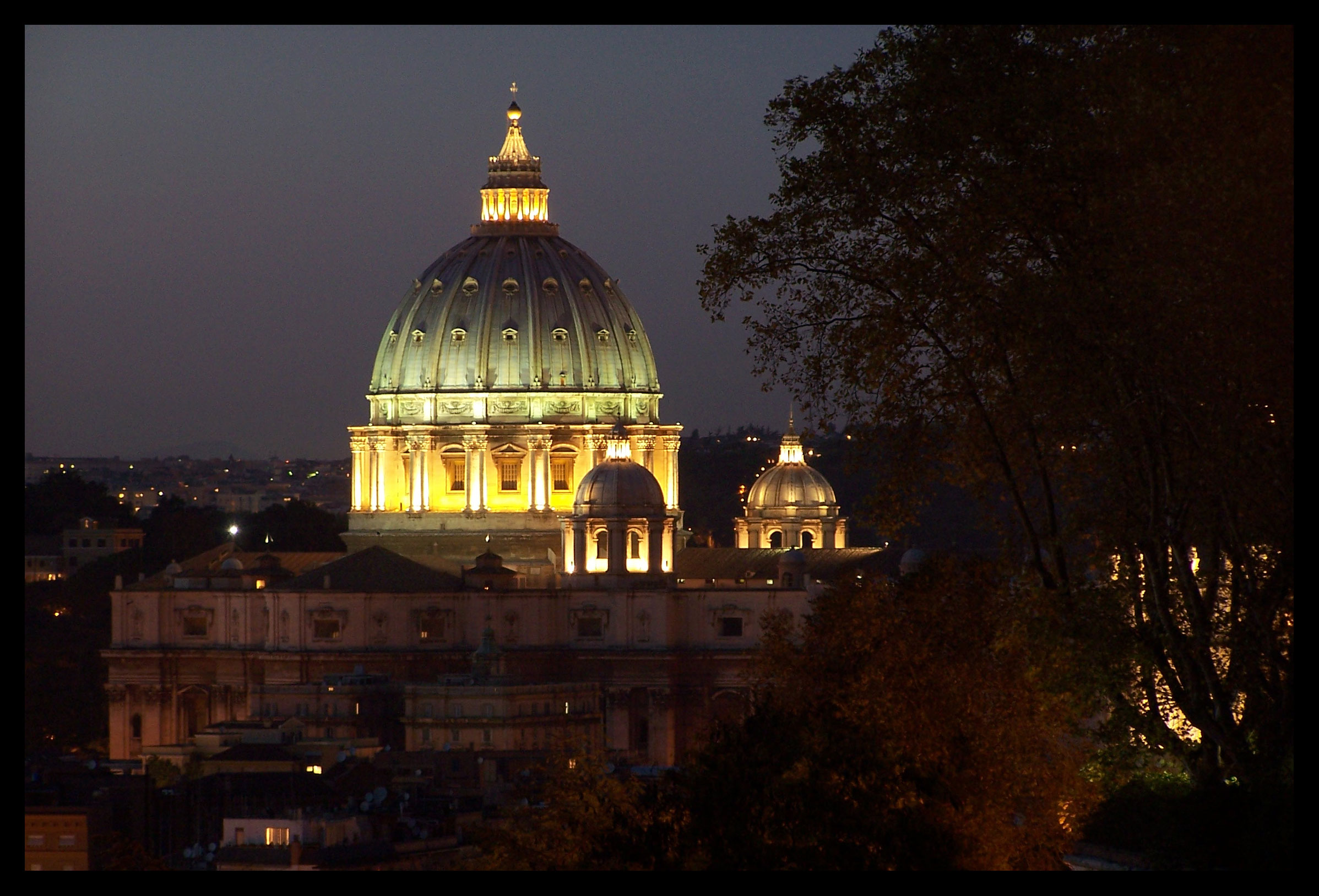 St. Peter's cupole from Gianicolo's Hill at dawn